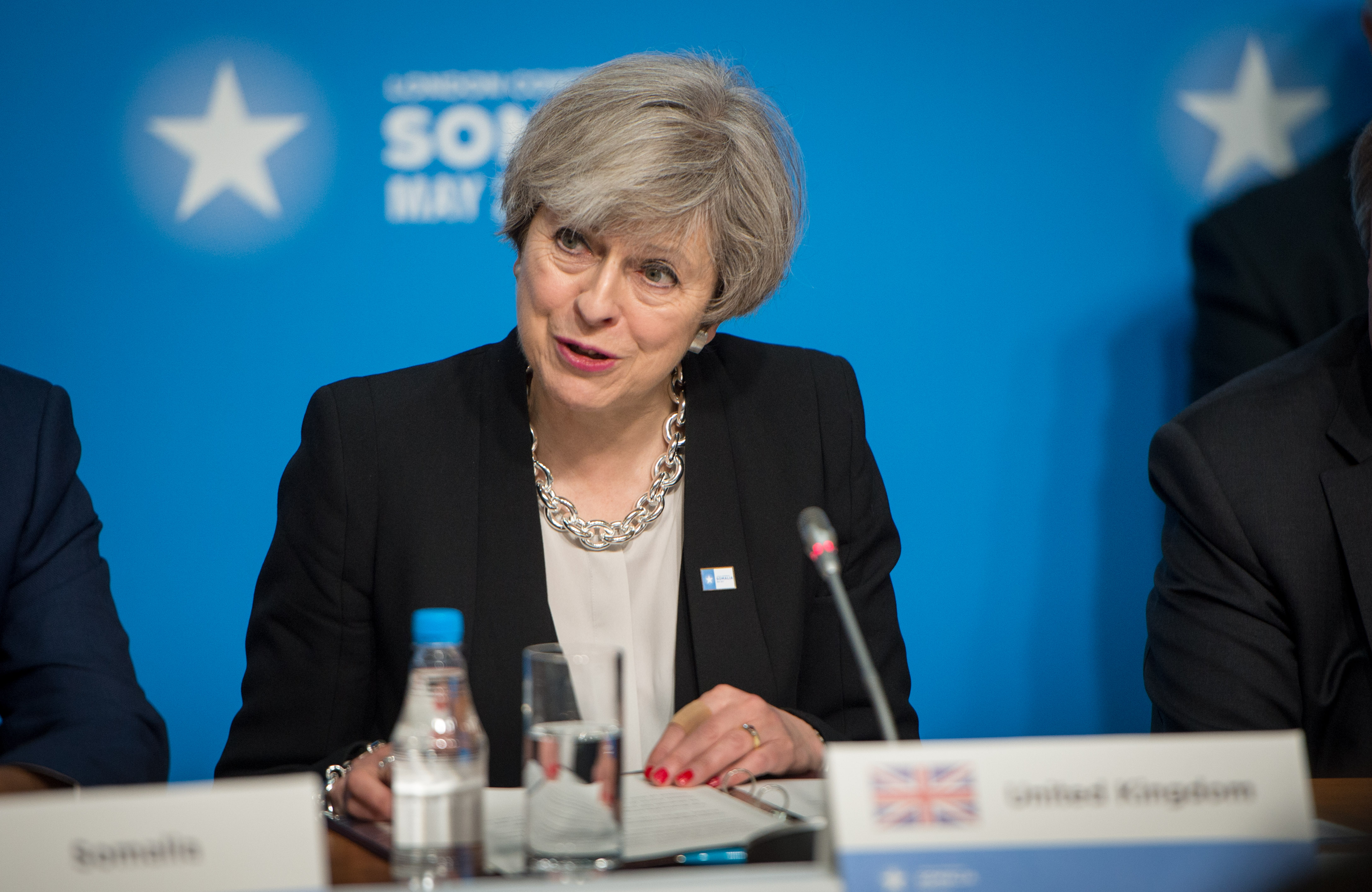 Brittish Prime Minister Theresa May speaks during an international conference on Somalia at the Lancaster House in London on May 11, 2017. (DOD photo by U.S. Air Force Staff Sgt. Jette Carr)